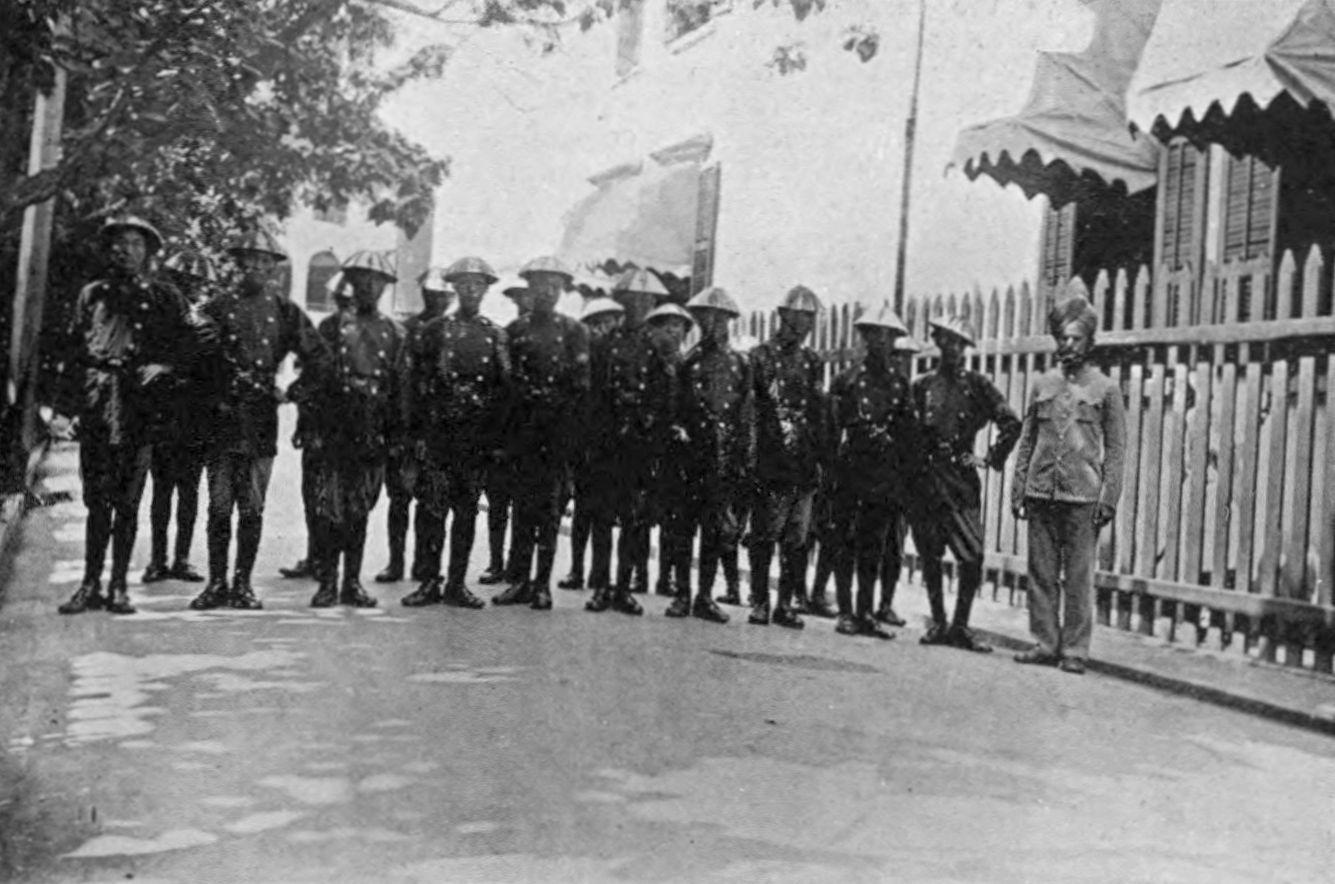 native chinese police of the international settlement